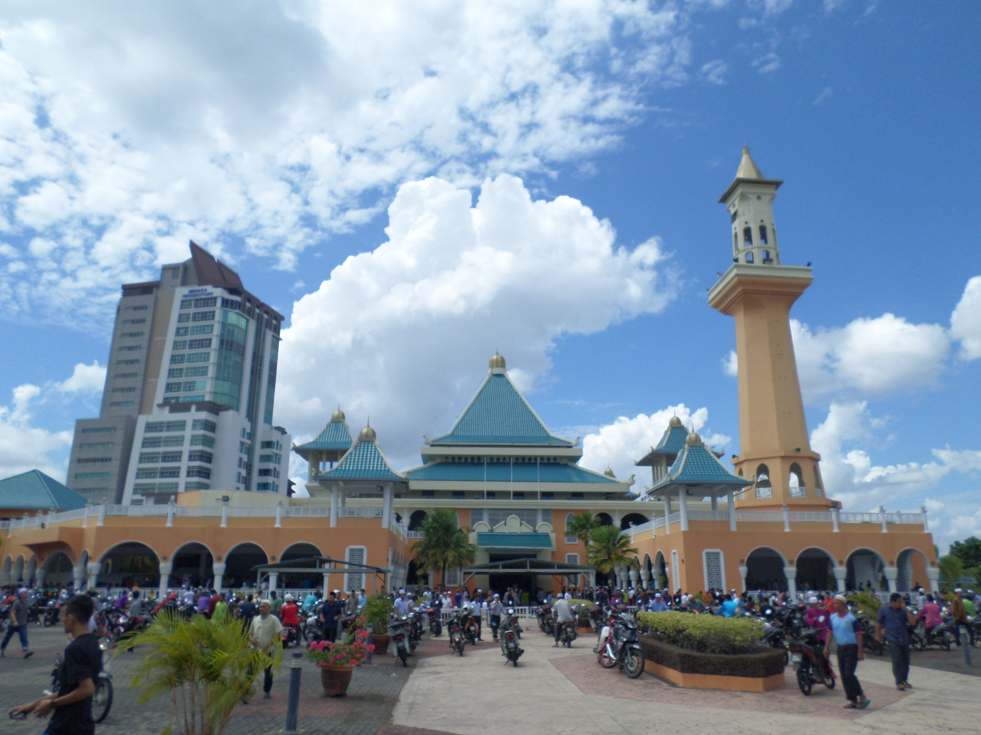 Al-Alami Mosque, Ayer Keroh, Melaka, MalaysiaBahasa Melayu: Masjid Al-Alami, Ayer Keroh, Melaka, Malaysia